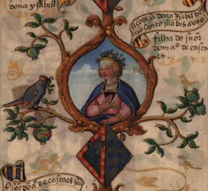 Miniature depicting Isabel da Cunha, Countess of Monsanto (c. 1420-1482), in the 1534 Genealogy of Manuel Pereira, 3rd Count of Feira.